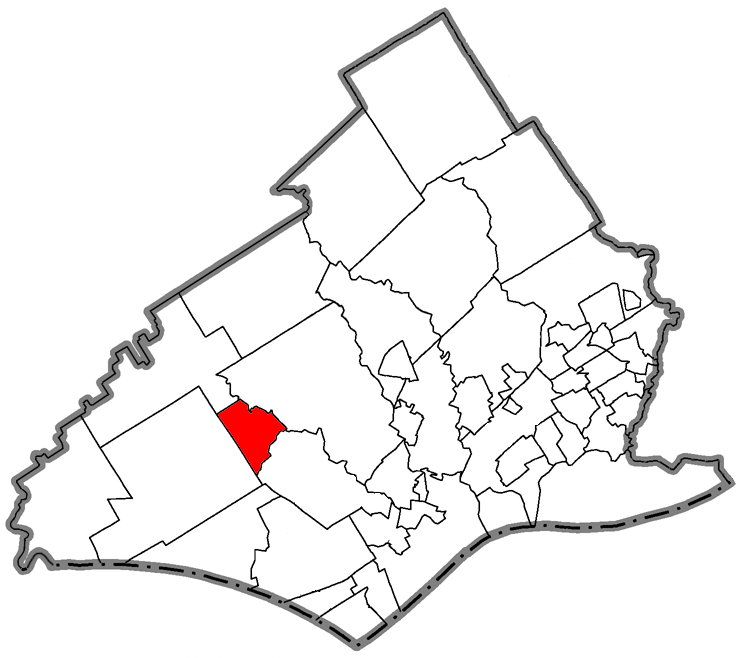 Showing the location within Delaware County, Pennsylvania.